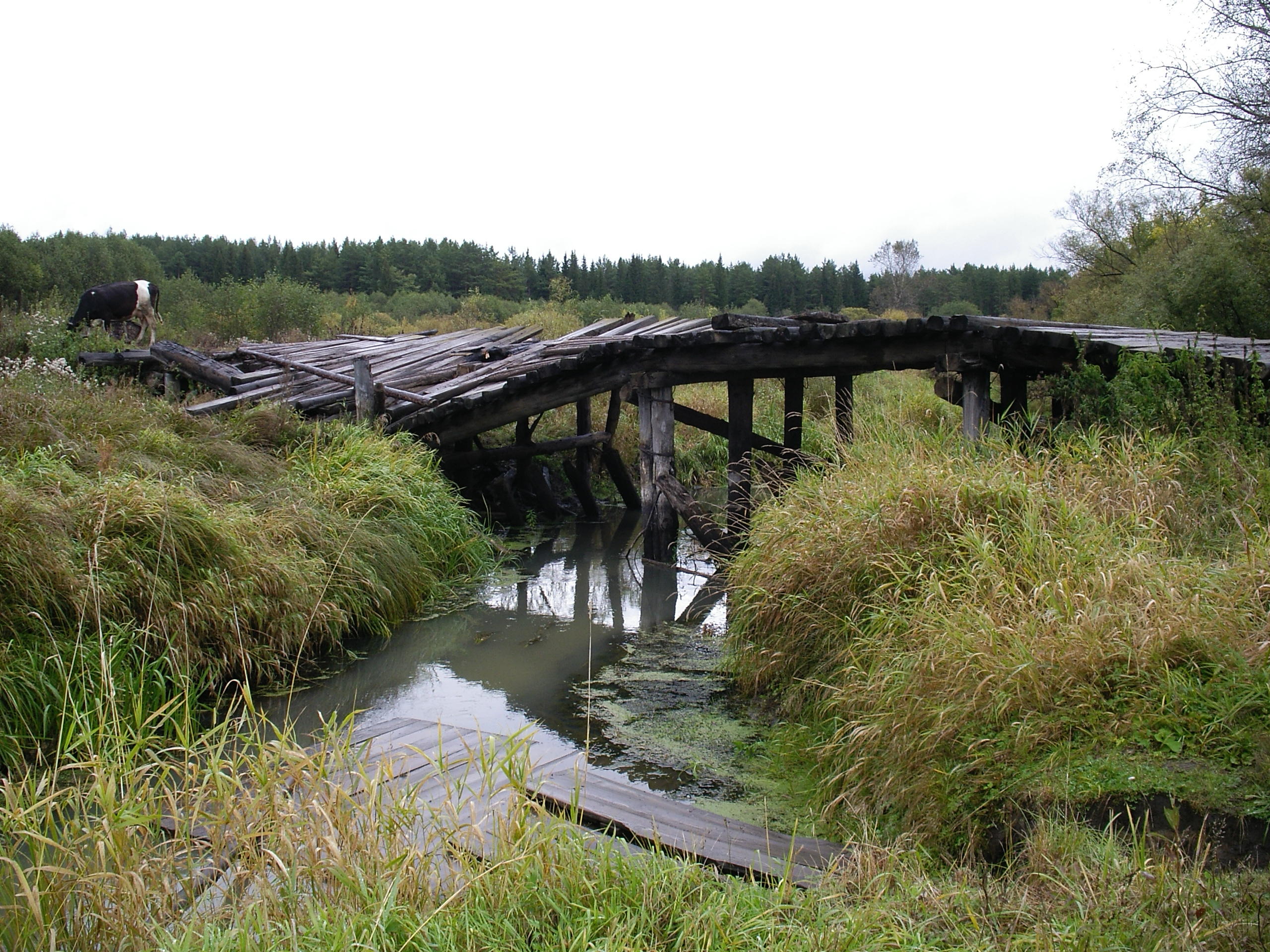 Bridge over Balda River, Zavodouspenskoe, Sverdlovsk Oblast, Russia